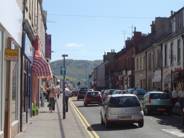 Girvan Ayrshire